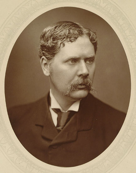 Marcus Stone